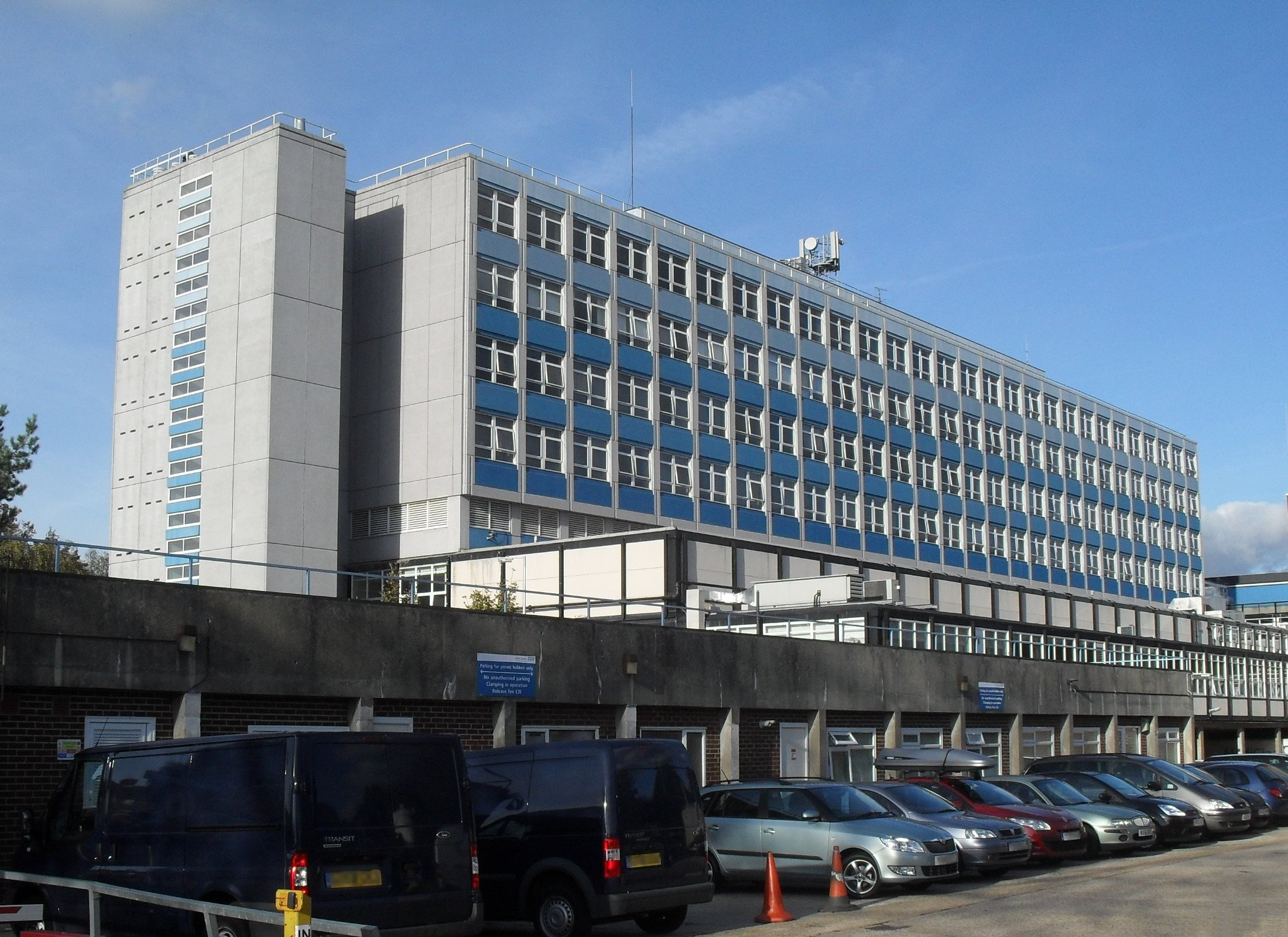 Crawley Hospital, Ifield Road, West Green, Crawley, West Sussex, England.